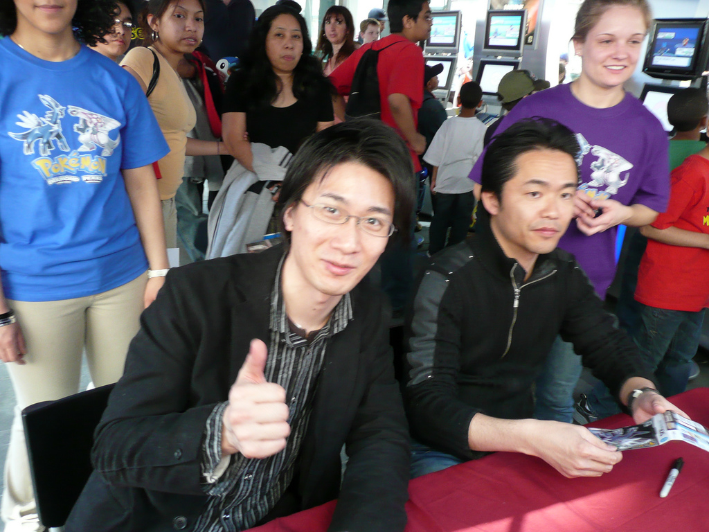 New York Pokémon D&P Launch Party. The creators.